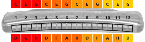 Note layout for octave tuned harmonica (48 reeds, key of C)